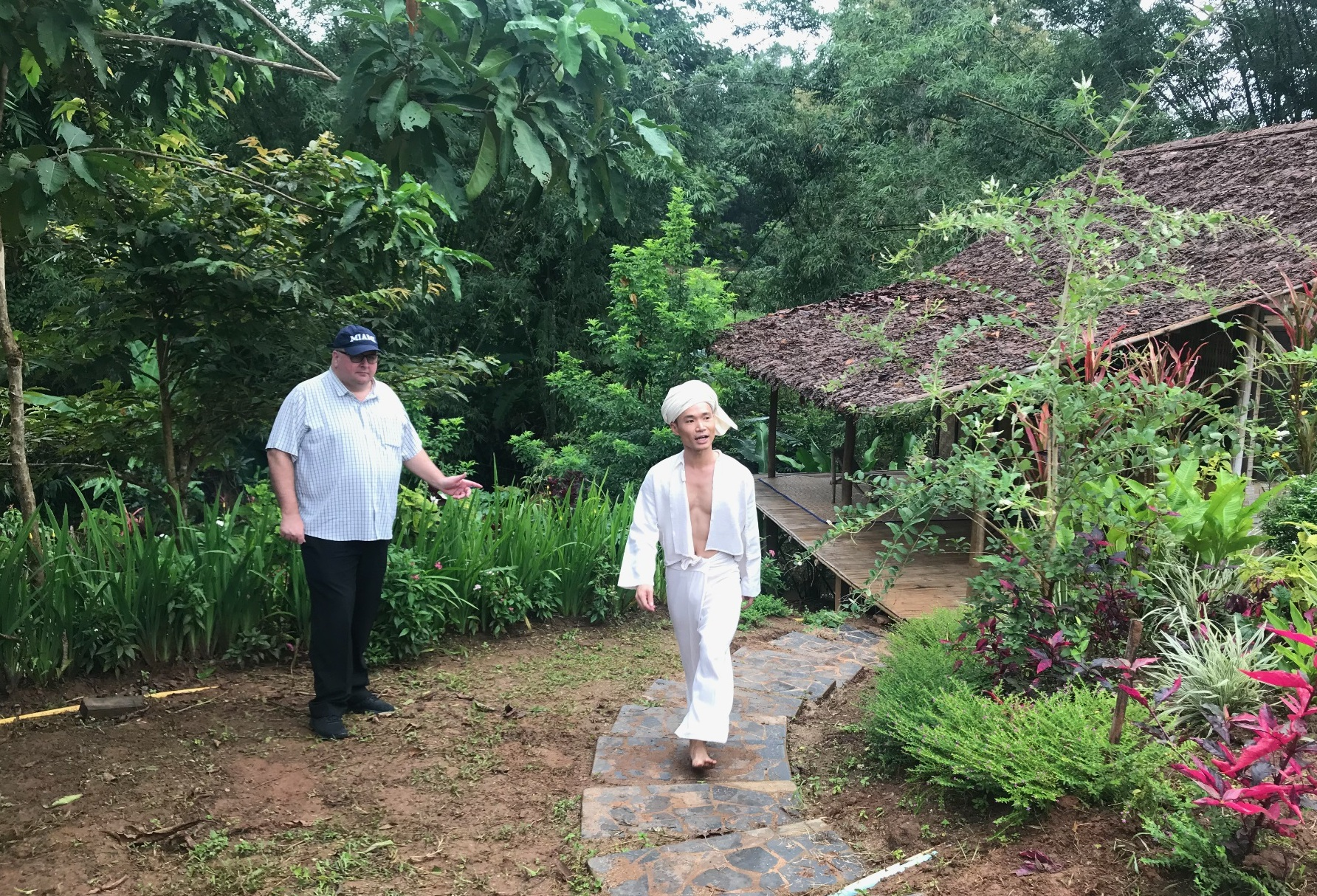 Producer Will Robinson and singer Ronnarong Khampha